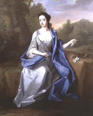 Portrait of Elizabeth Somerset, Duchess of Beaufort (c.1713-1799)